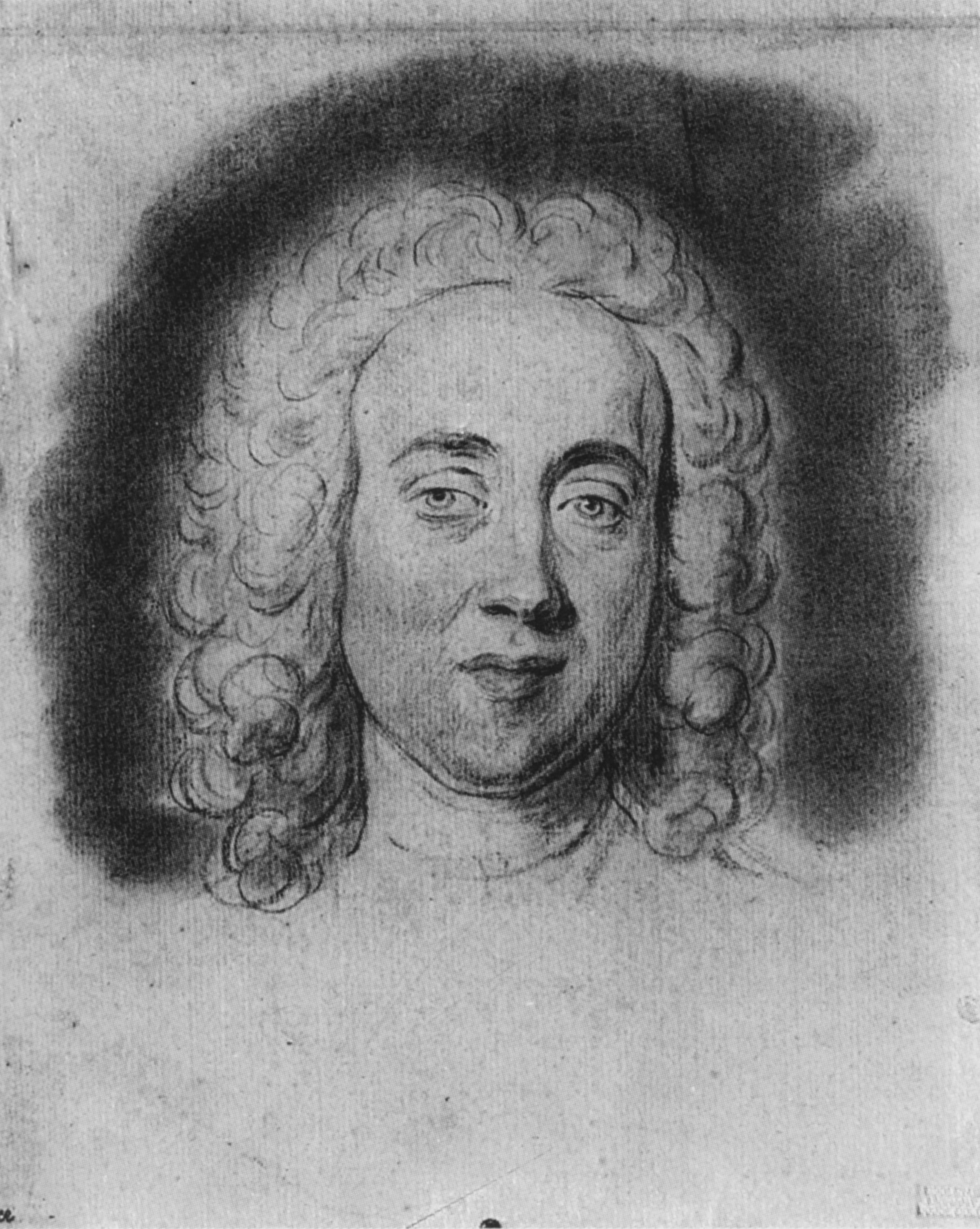 Portrait of Pierre-Jean Mariette, French engraver, print collector and publisher